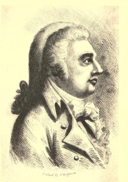 Portrait of John Hatfield (1758?–1803), English forger, bigamist and impostor.